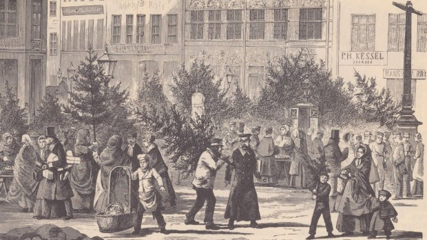 Illustration from Illustreret Tidende, December 29, 1867, showing Christmas trees on Amagertorv/Højbro Plads in Copenhagen, Denmark